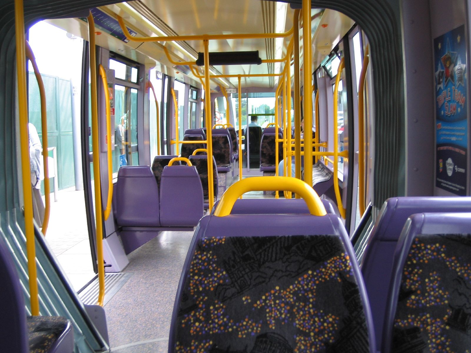 This photograph was taken on the day the Dublin LUAS tram service began (2004)